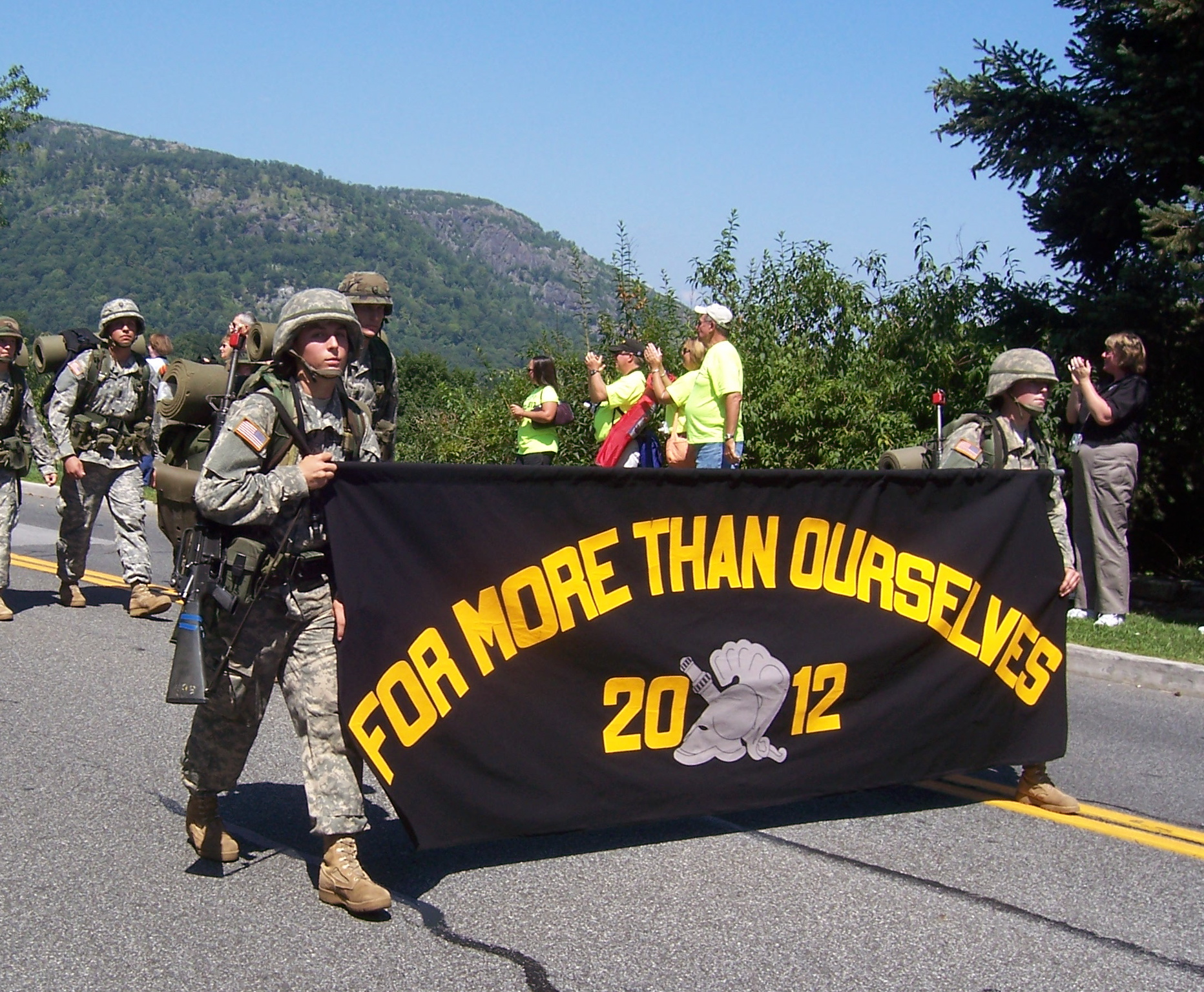 USMA Class of 2012's Motto Displayed During Beast March Back